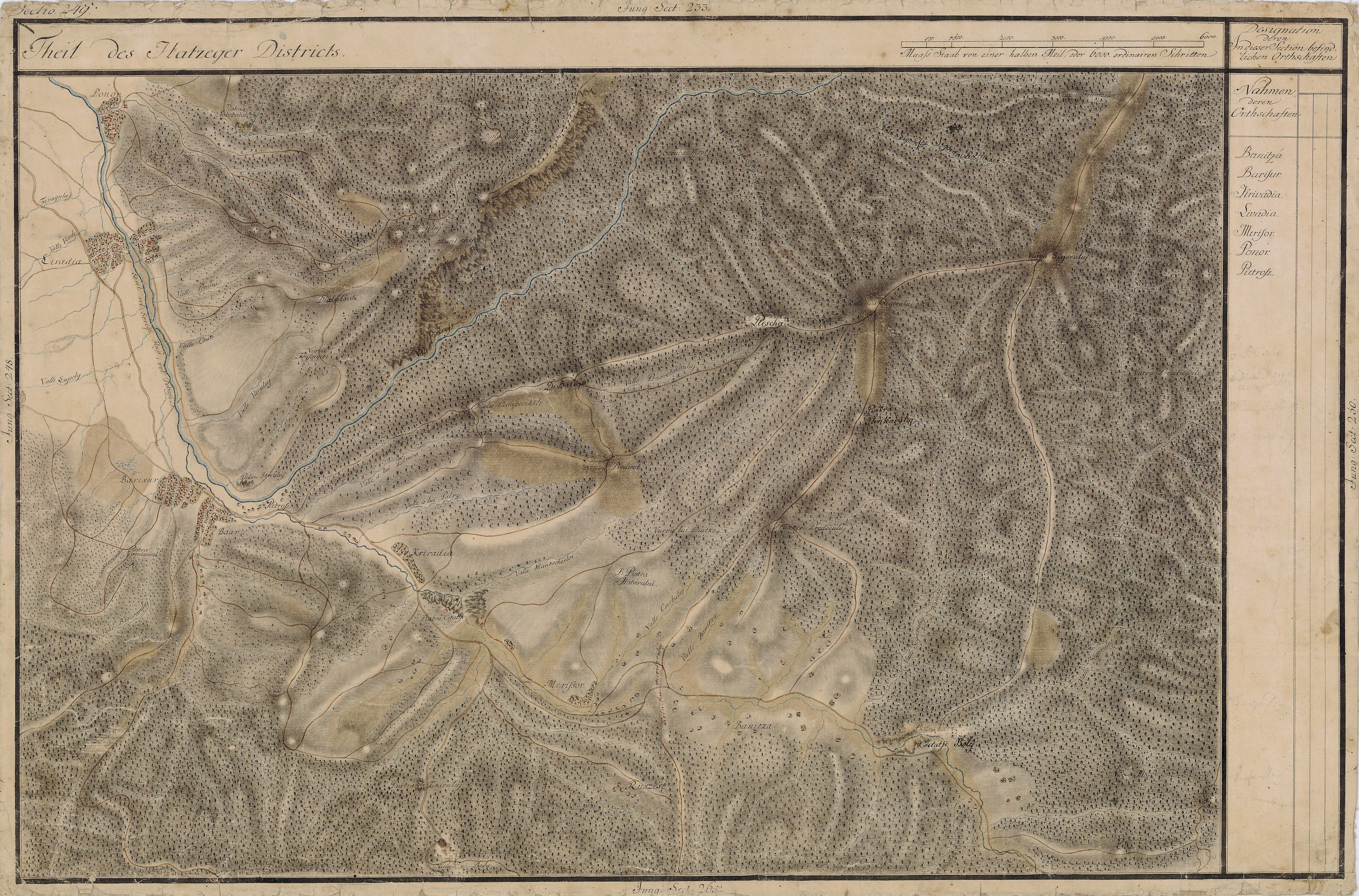 Grand Duchy of Transylvania, 1769-1773. Josephinische Landaufnahme pg.249